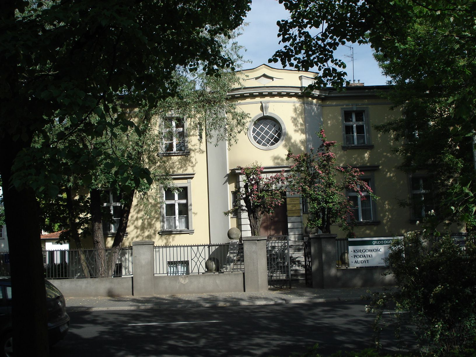 Poznań, the own villa, proj. by Stefan Cybichowski (rebuilt).